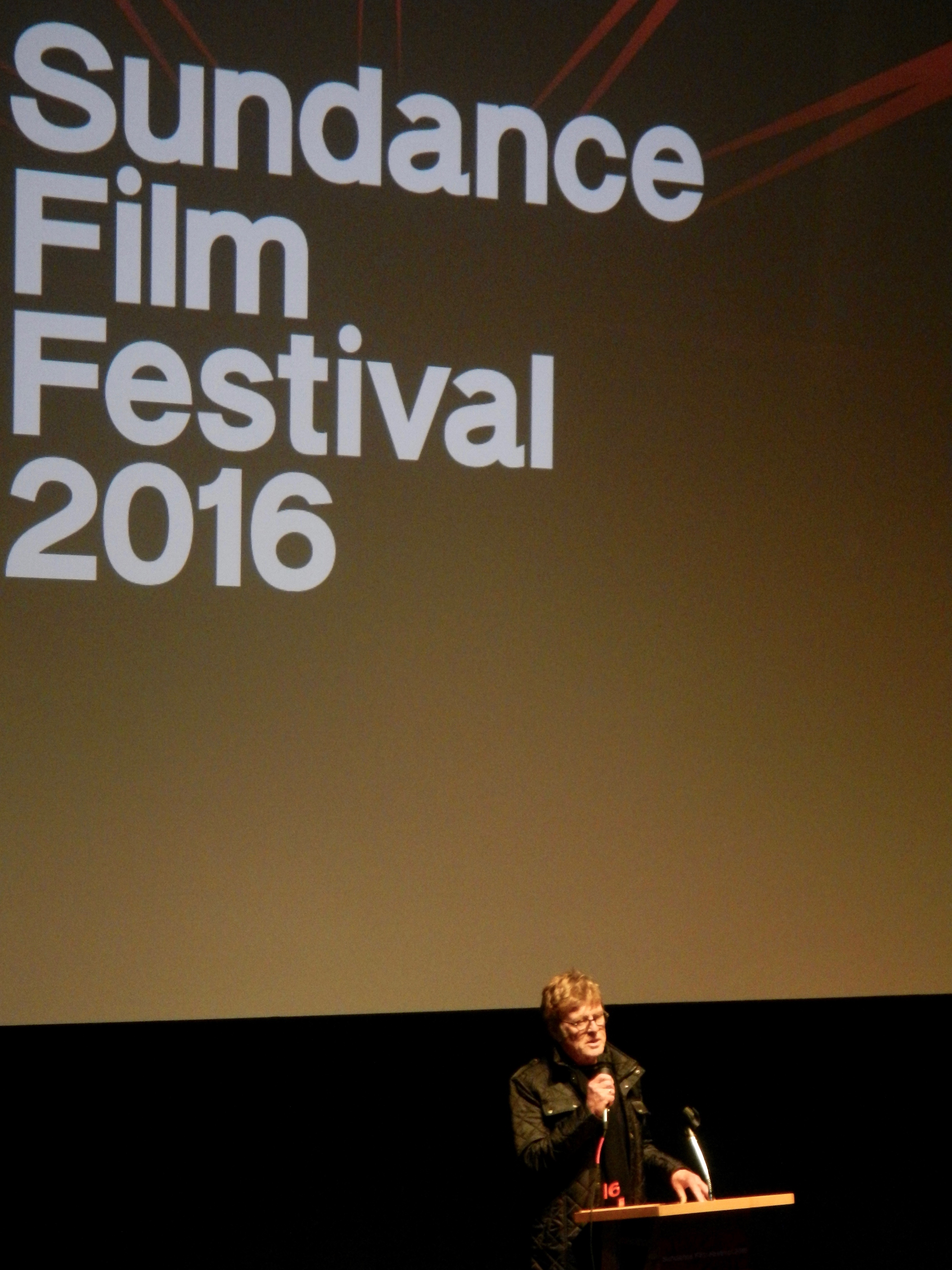 "Nothing Left Unsaid: Gloria Vanderbilt & Anderson Cooper," Sundance 2016, Park City UT